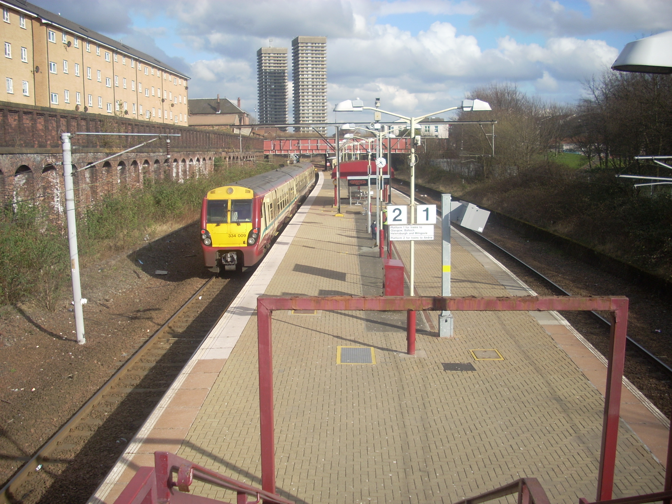 Bellgrove railway station